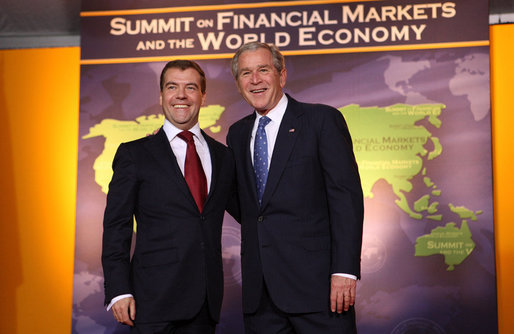 President George W. Bush welcomes Russian Federation President Dmitry Medvedev to the Summit on Financial Markets and the World Economy Saturday, Nov. 15, 2008, at the National Museum Building in Washington, D.C.